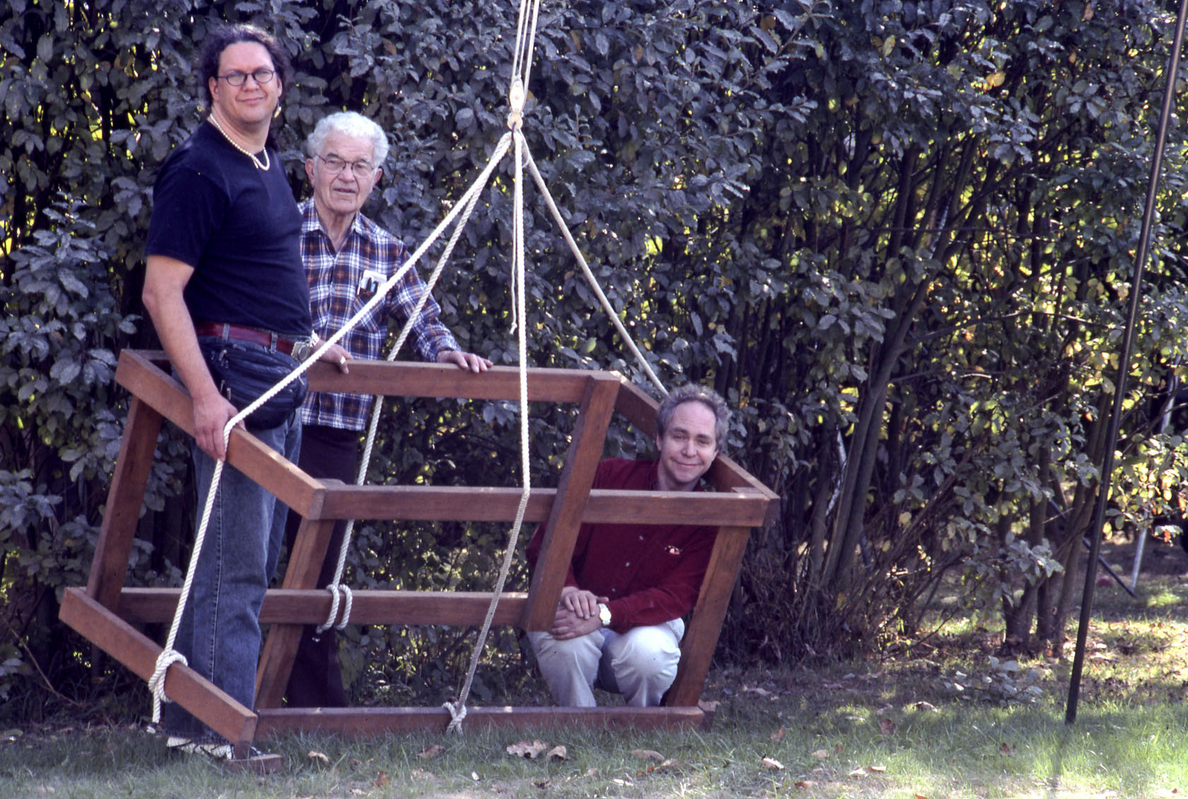 Magicians Penn & Teller visit Jerry Andrus's Castle of Chaos.